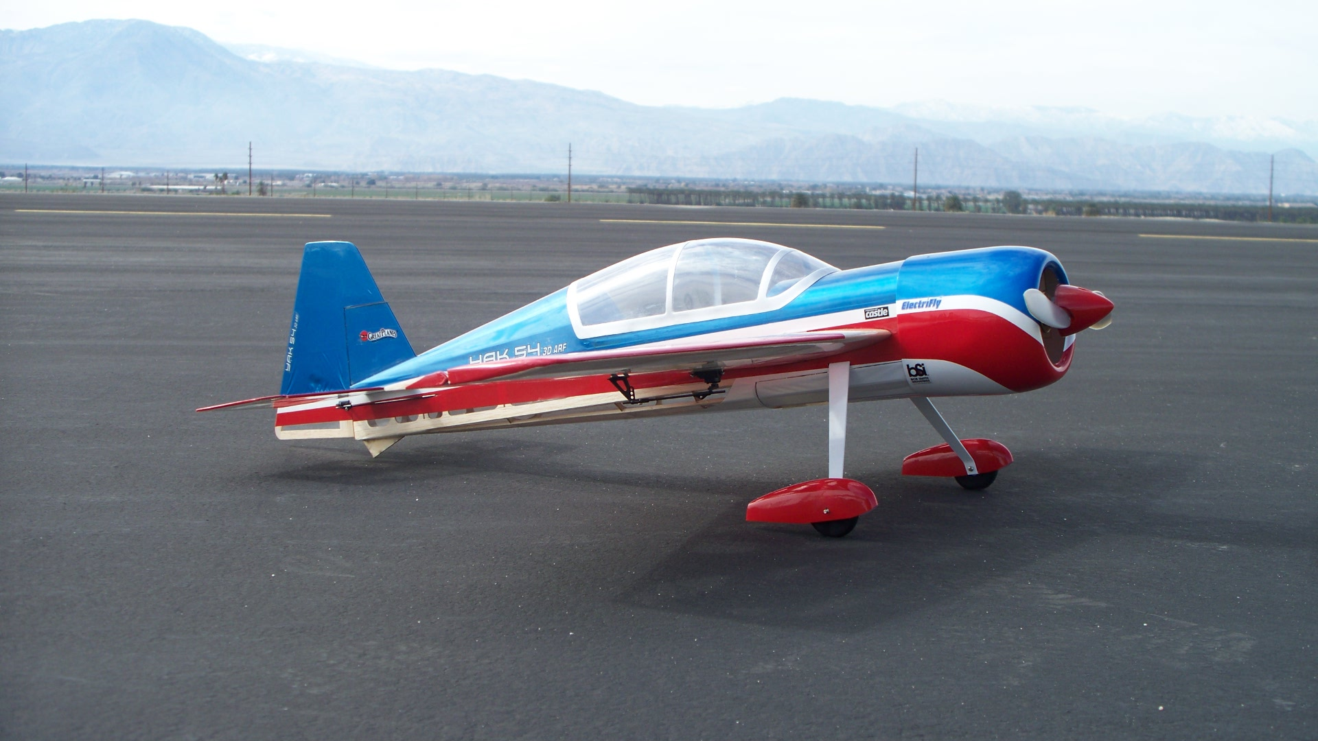 Electrifly Yak-54 EP 3D radio controlled model aircraft photographed, owned and flown by user PMDrive1061